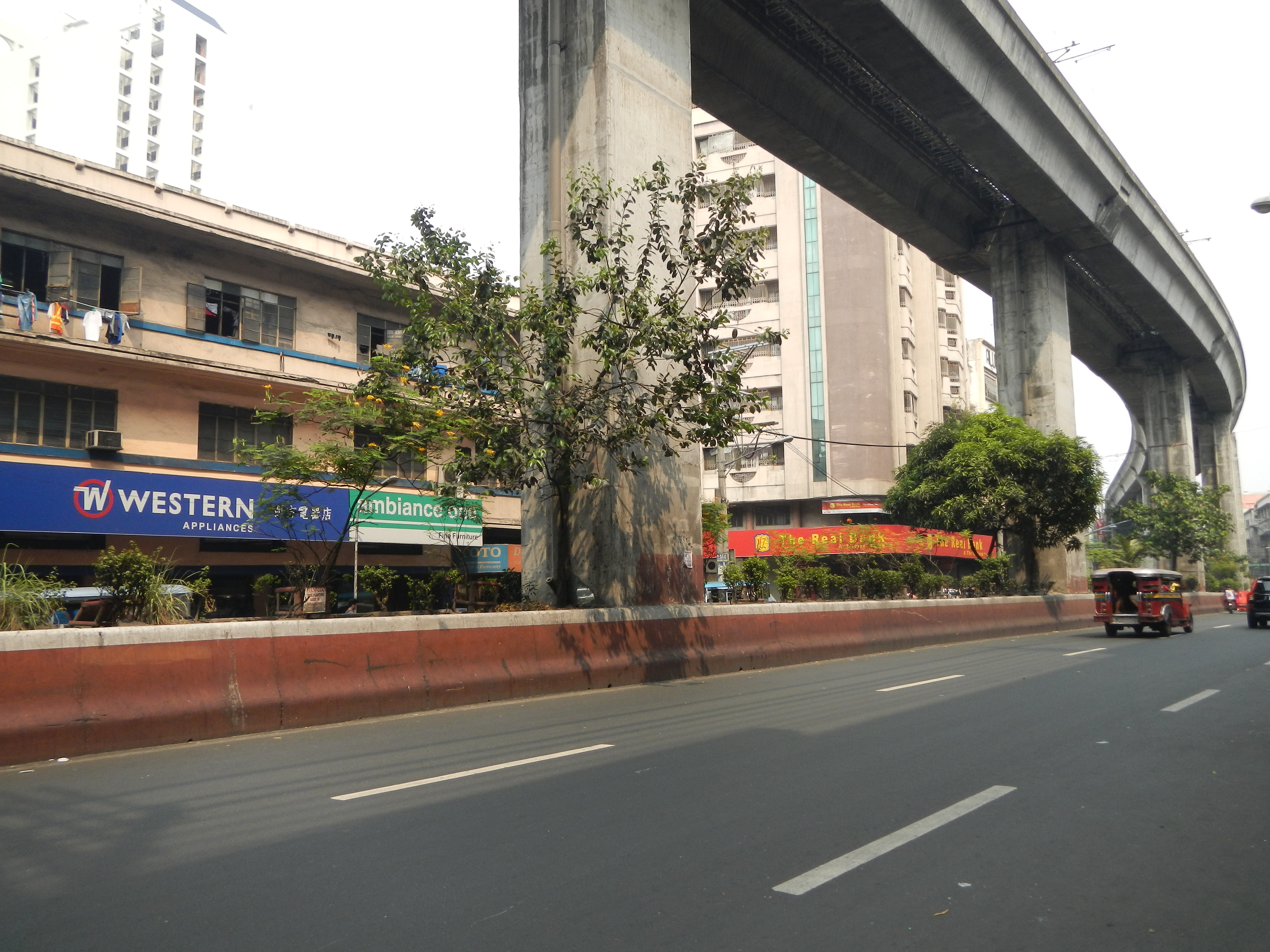 Rizal Avenue corner Recto Avenue, Santa Cruz, Manila, LRT Recto and Doroteo Jose.